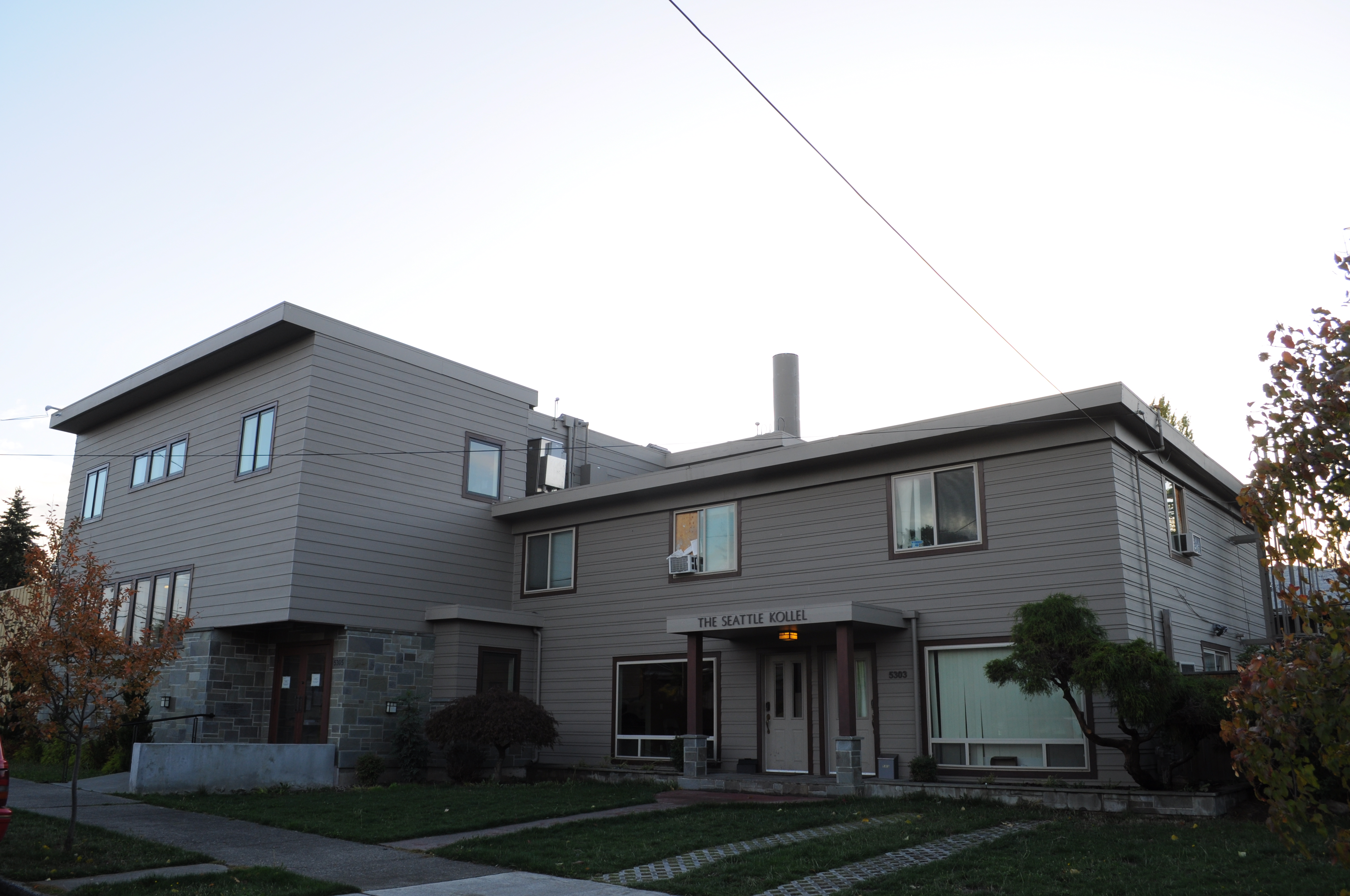 Seattle Kollel , Seward Park, Seattle, Washington.